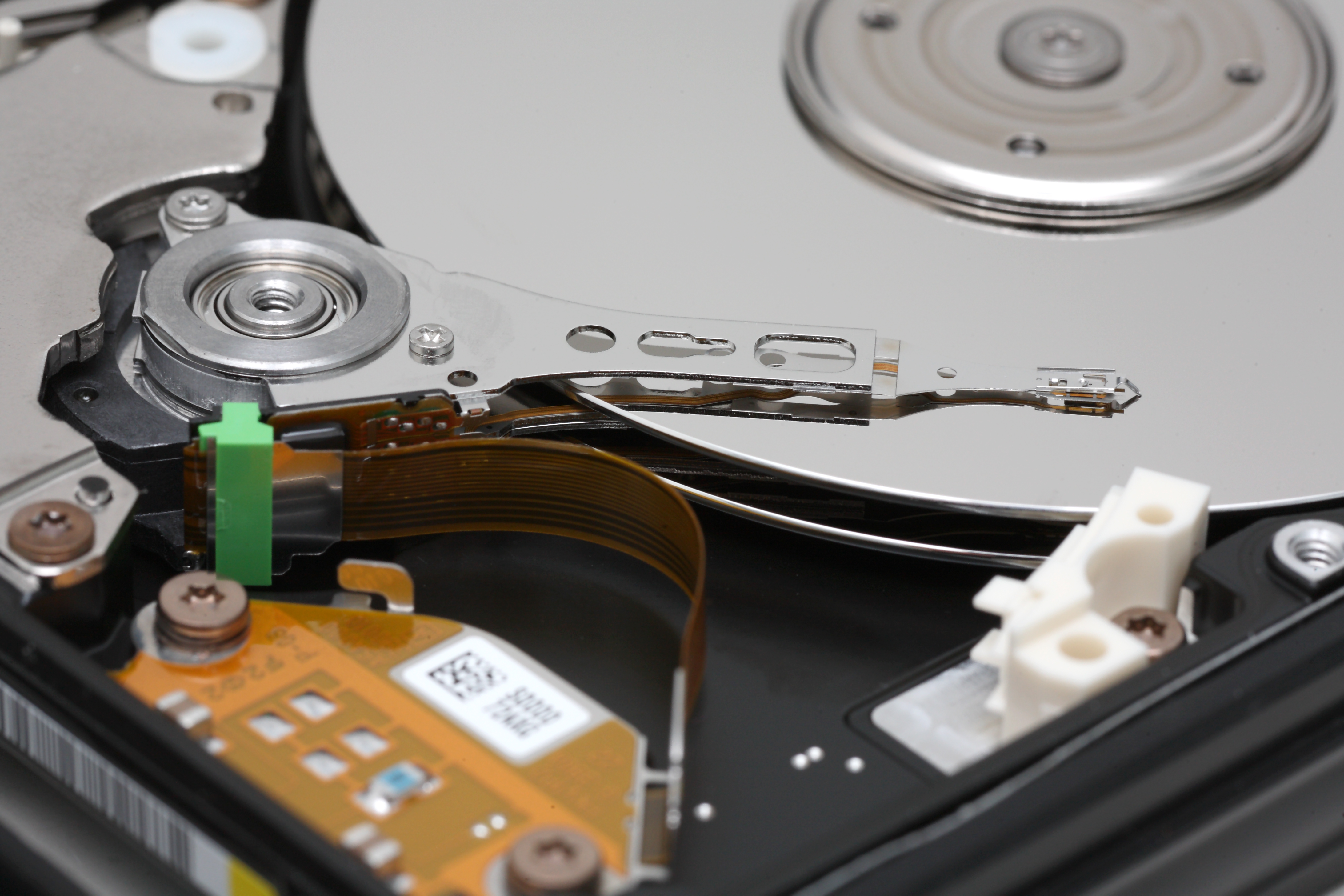 Toshiba HDD2189 2.5" hard disk drive platters, head and actuator arm. near 1:1 macro.